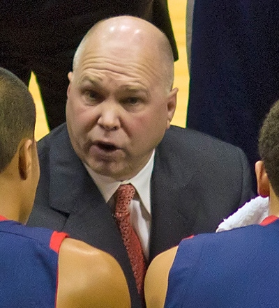 Saint Mary's College men's basketball coach Randy Bennett speaks to players during a game against the University of San Diego on Jan. 5, 2012.